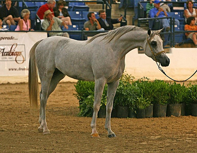 Photo by Heather Abounader